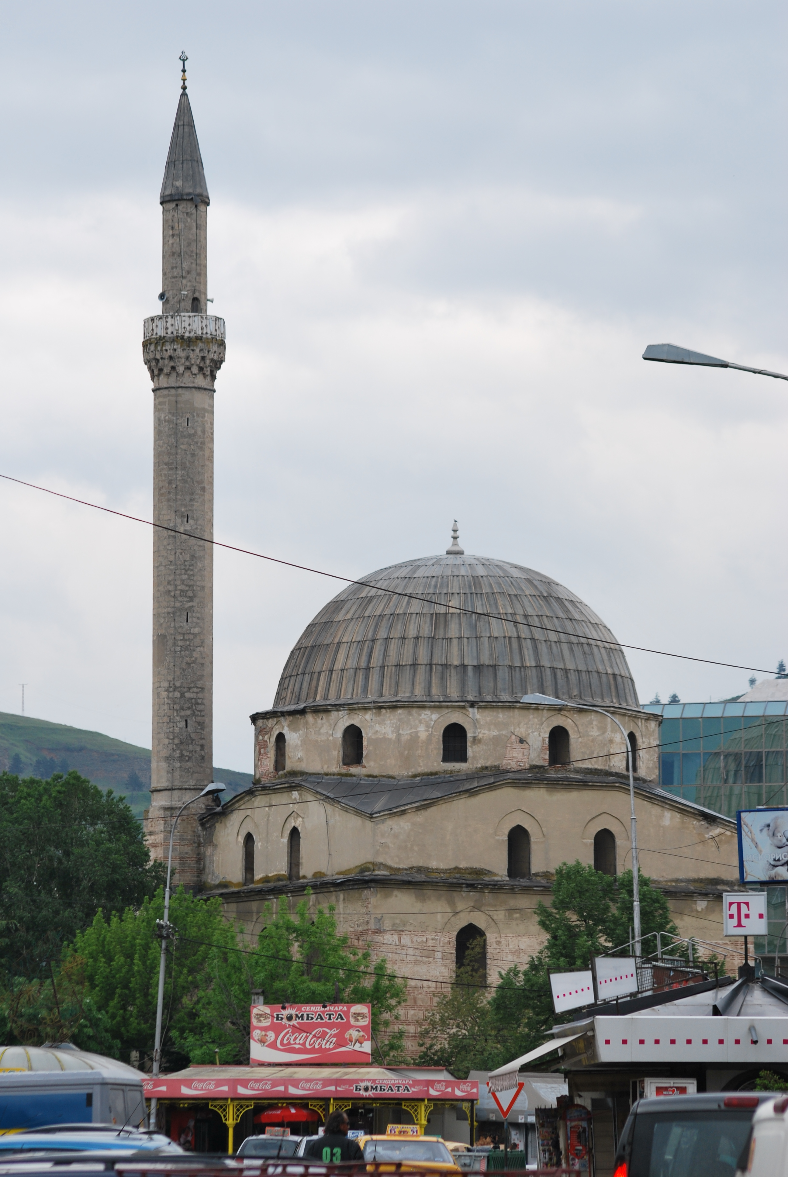 Bitola, Macedonia